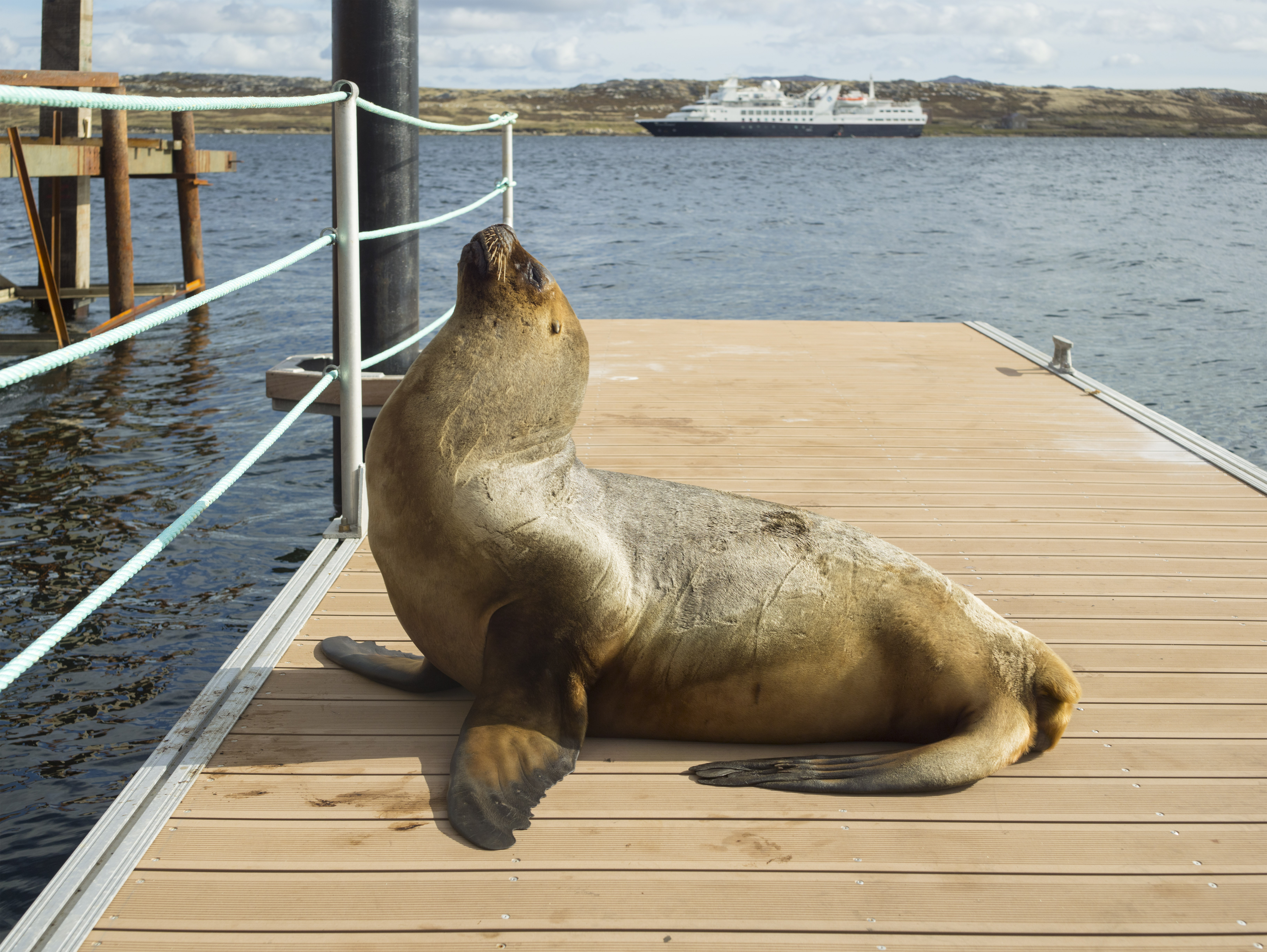 Antarctic fur seal (Arctocephalus gazella) posing on the dock in Stanley, Falkland Islands with the Silversea Silver Explorer in the background.